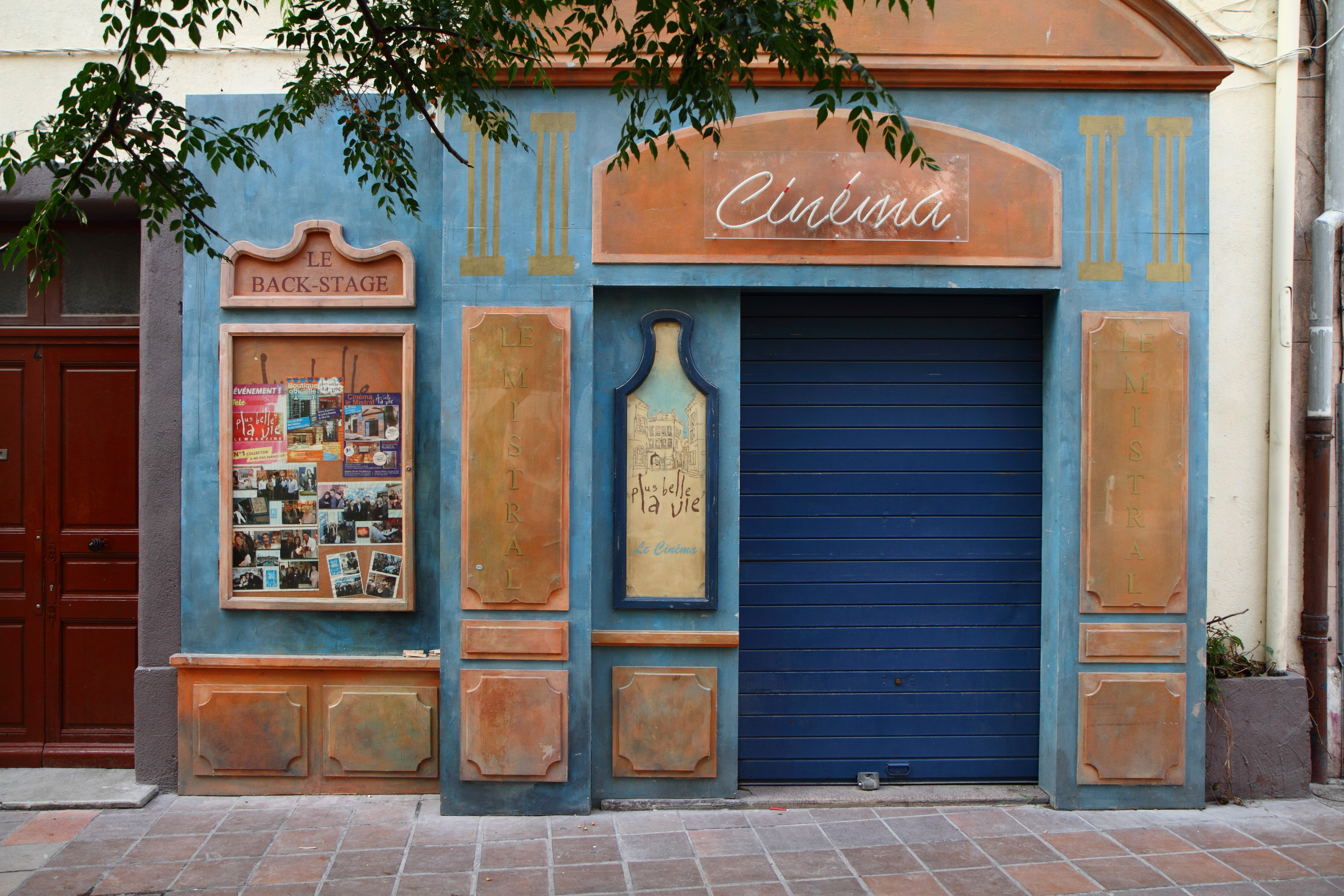 A movie theater in the Panier district of Marseille. It is inspired by Plus Belle la Vie, a highly successful TV drama in France.